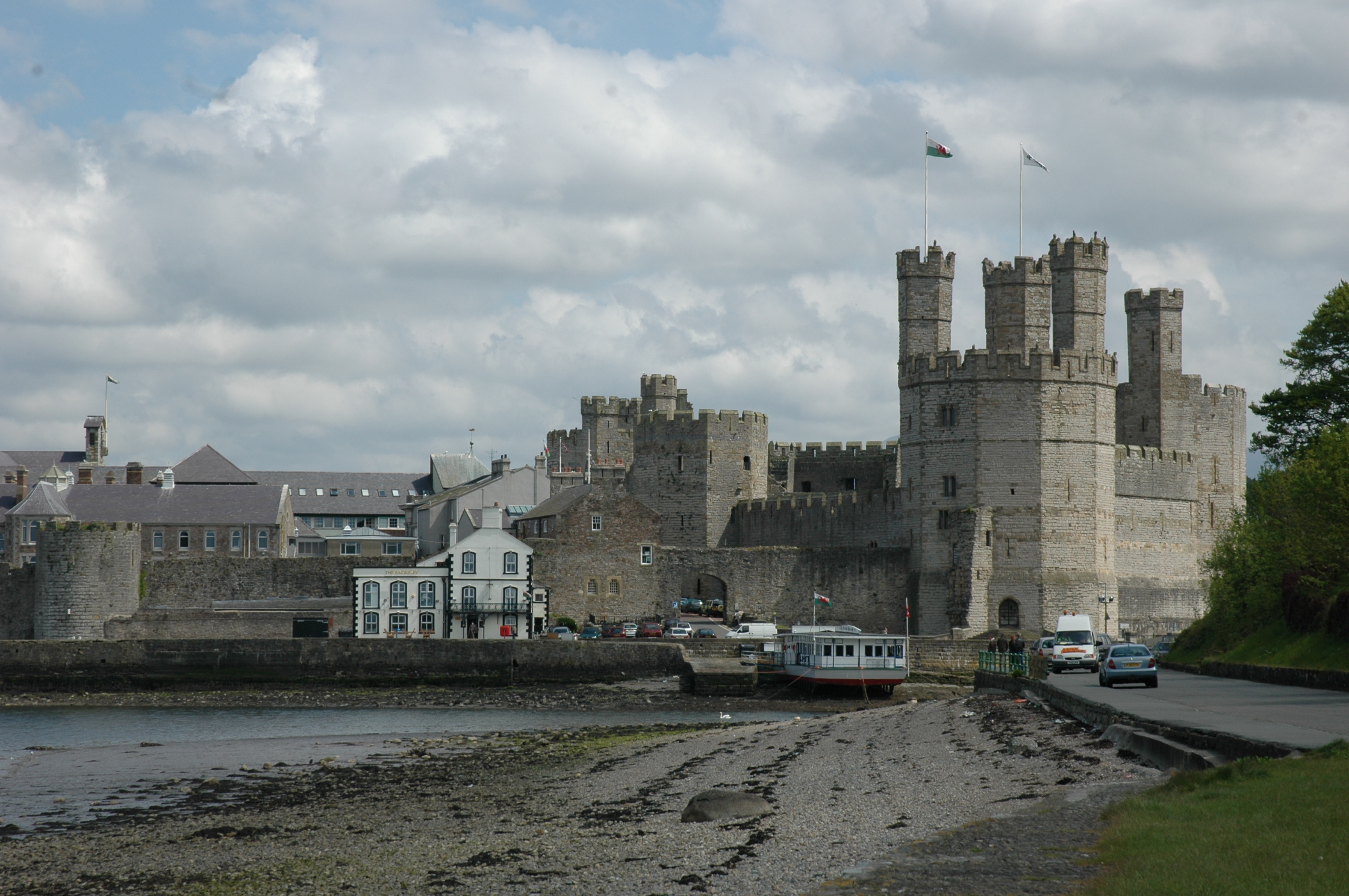 Caernarfon Castle in Caernarfon, North Wales